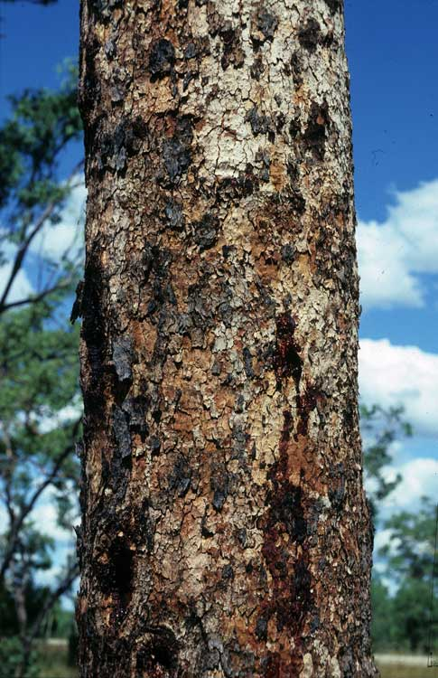 Bark of Corymbia latifolia on the road between Mataranka and Katherine